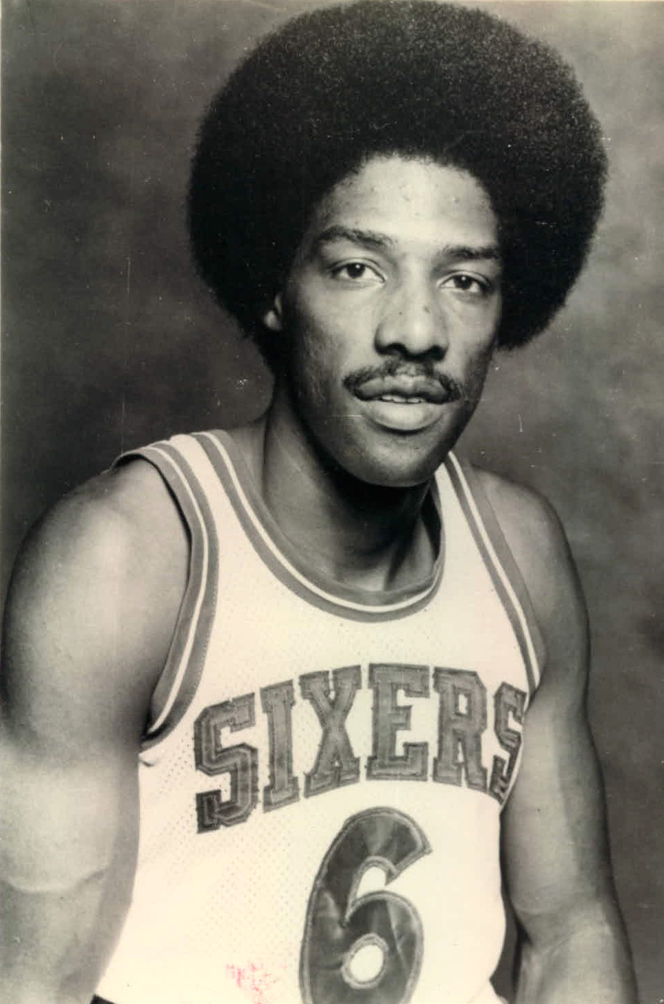 Professional basketball player Julius Erving